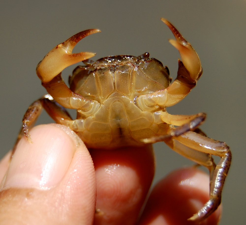 Paddyfield's crab, Parathelphusa convexa, male, ventral view. Bogor, West Java